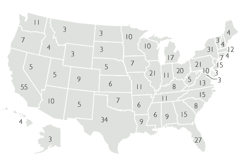 Map of number of electors by state after redistricting from the 2000 census (text removed by uploader).